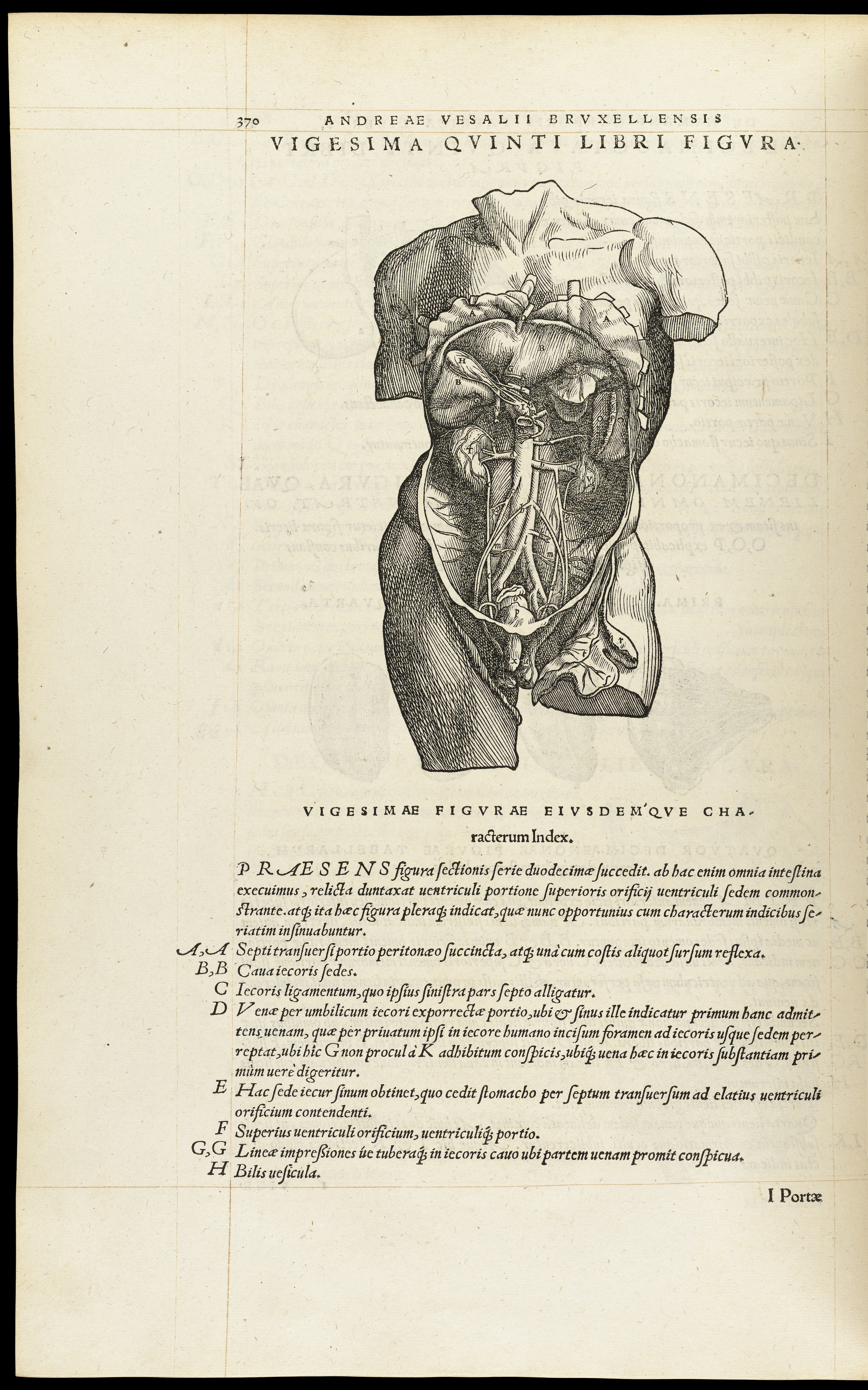 Andreae Vesalii Bruxellensis, scholae medicorum Patauinae professoris De humani corporis fabrica libri septem ... Rare Books Keywords: Anatomy